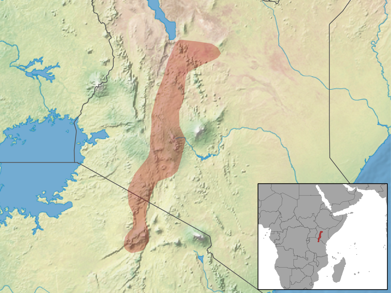 geographic distribution of Thallomys loringi